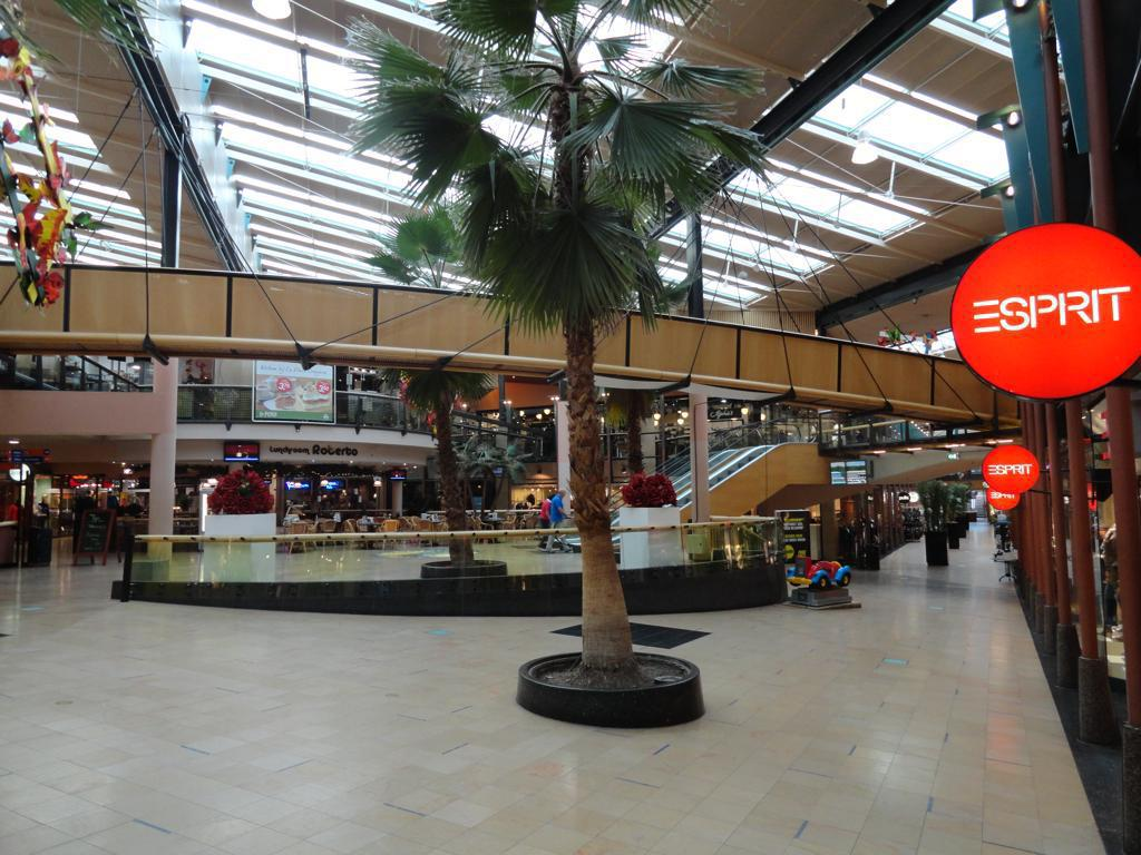 Shopping center Oranjerie